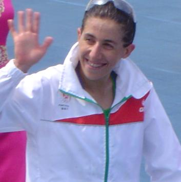 Vanessa Fernandes on the way to the medal ceremony at the 2008 Summer Olympics.